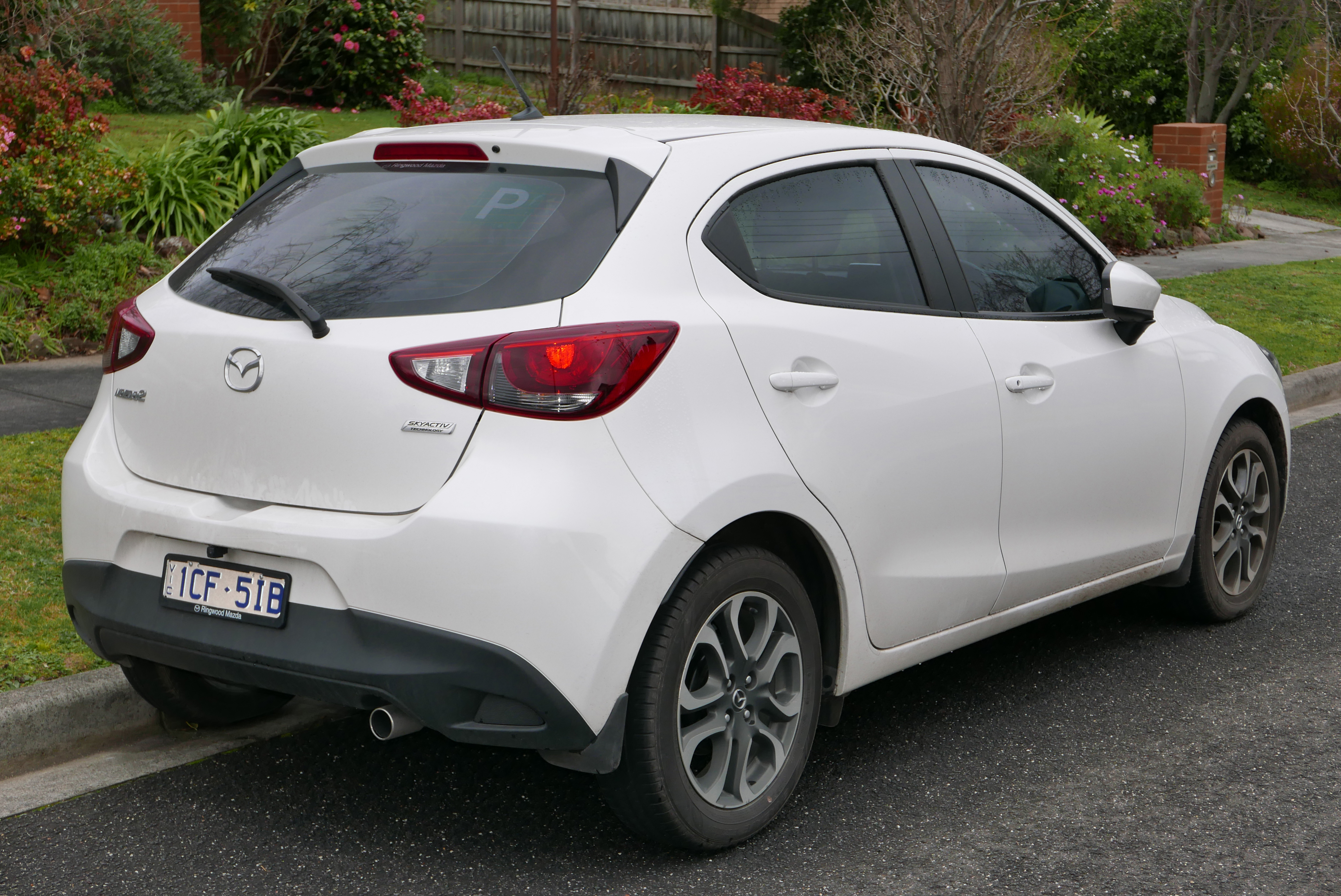 2014 Mazda2 (DJ) Genki hatchback. Photographed in Doncaster, Victoria, Australia. Vehicle registration enquiry resultsJurisdictionVictoriaRegistration1CF5IBChassis codeMM0DJ2HAA0W104923Engine codeP520240314Compliance date2014-11Year of manufacture2014